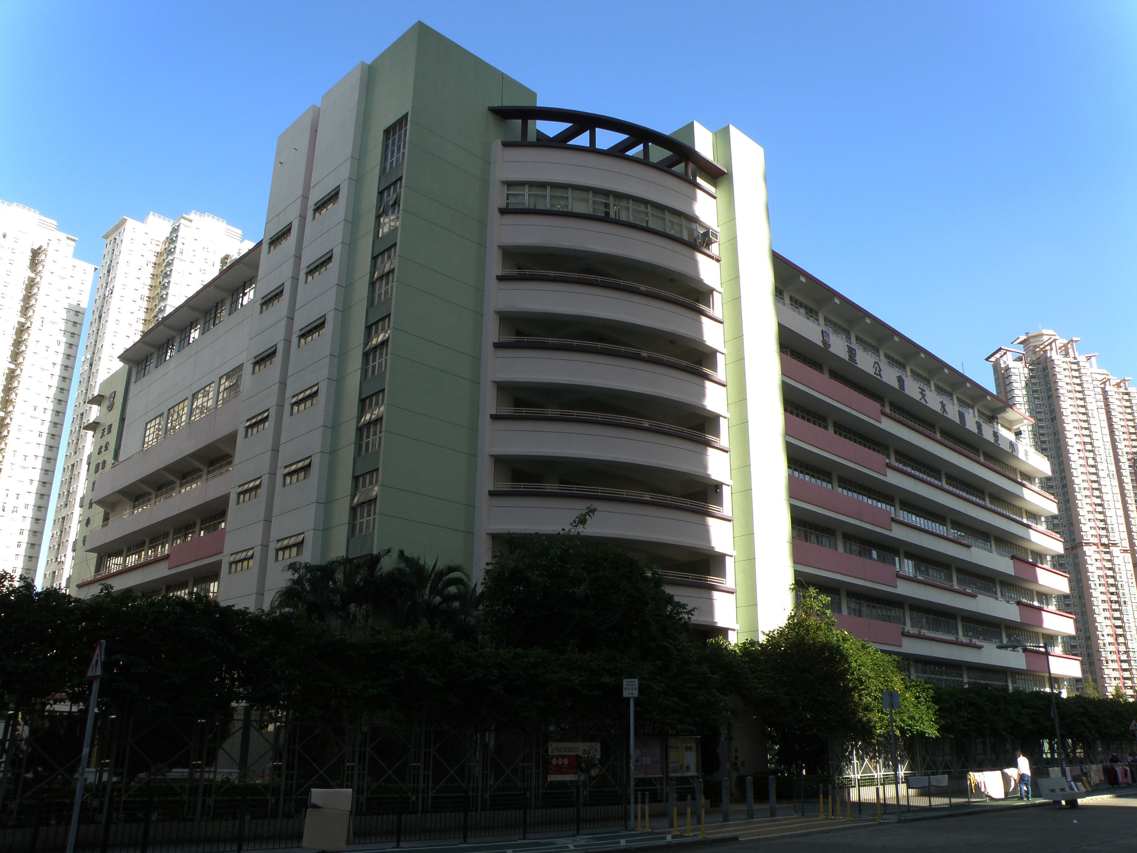 S.K.H Tin Shui Wai Ling Oi Primary School in Tin Shui Wai, Hong Kong.